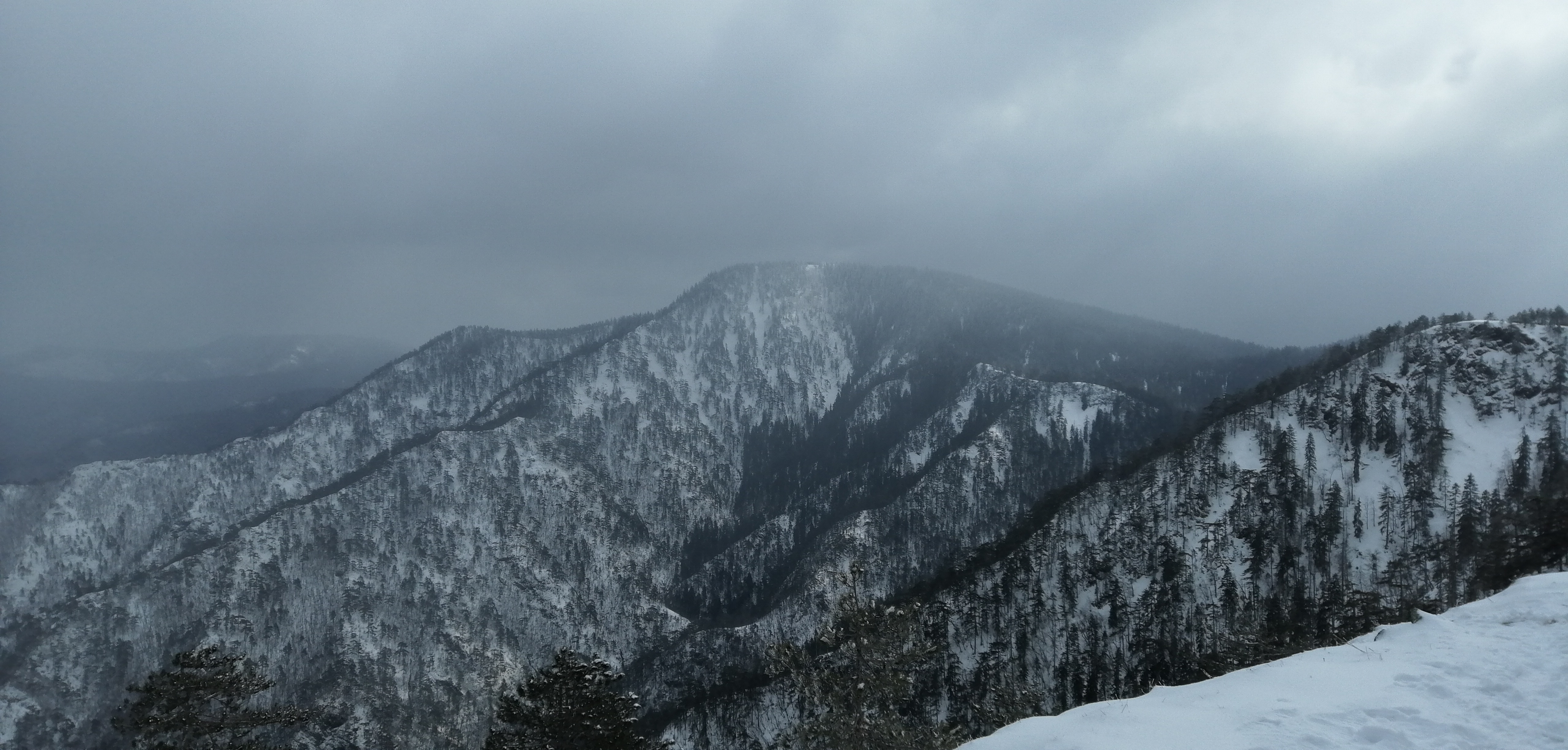 Konjuh mountain summit – photo taken from nearby hill Zidine